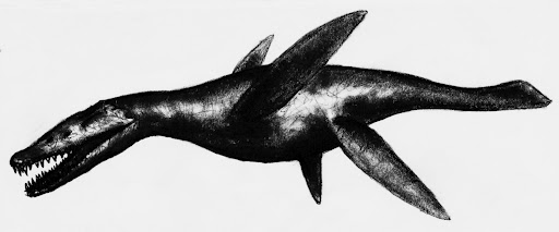 Simolestes vorax, a Jurassic pliosaur